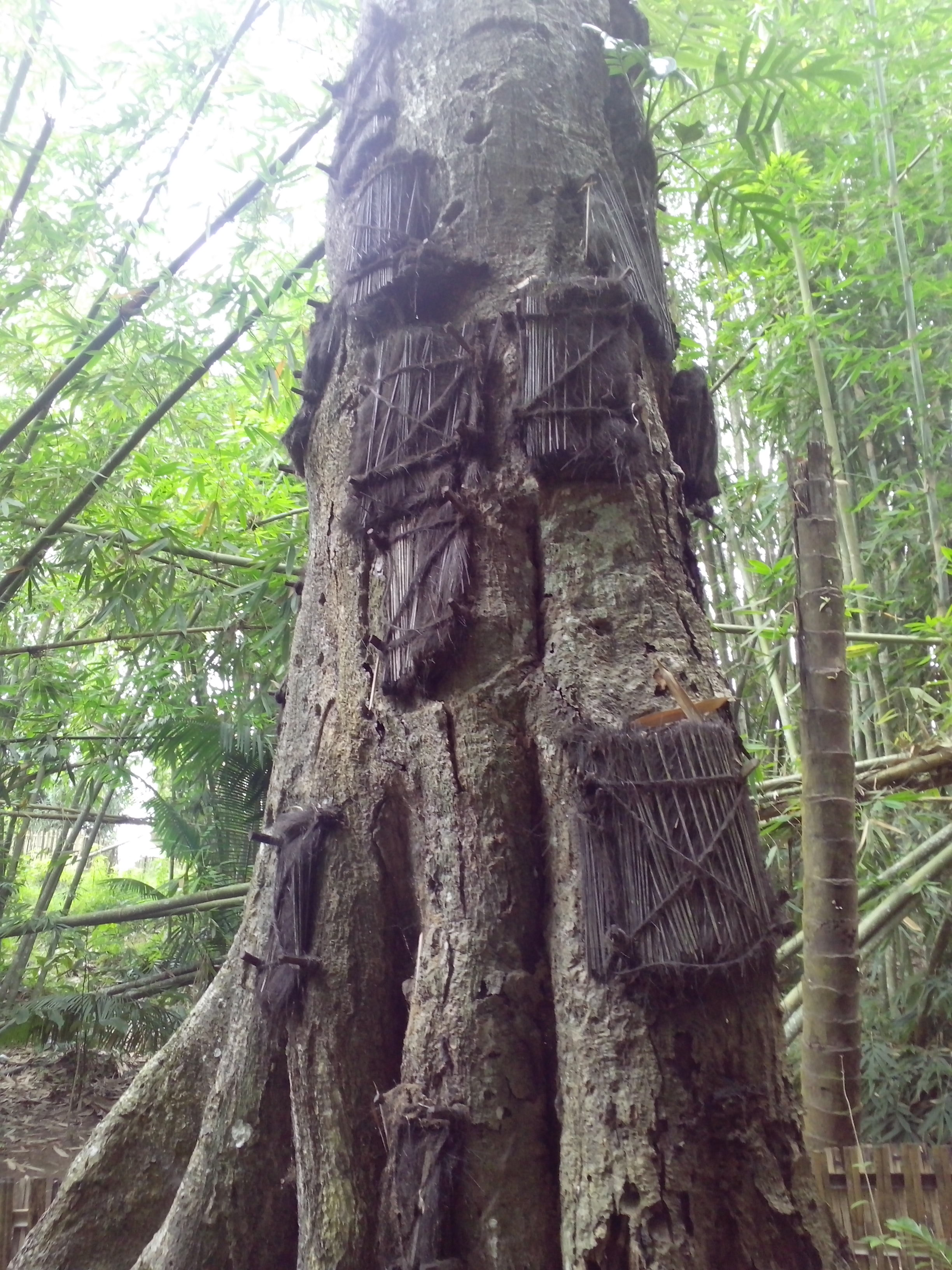 The tree was a burial site for babies in past days of Toraja people. Nowadays, no longer Toraja people bury their babies in a tree. The tree is called Kambira by local people and located in Kambira village, Tana Toraja.